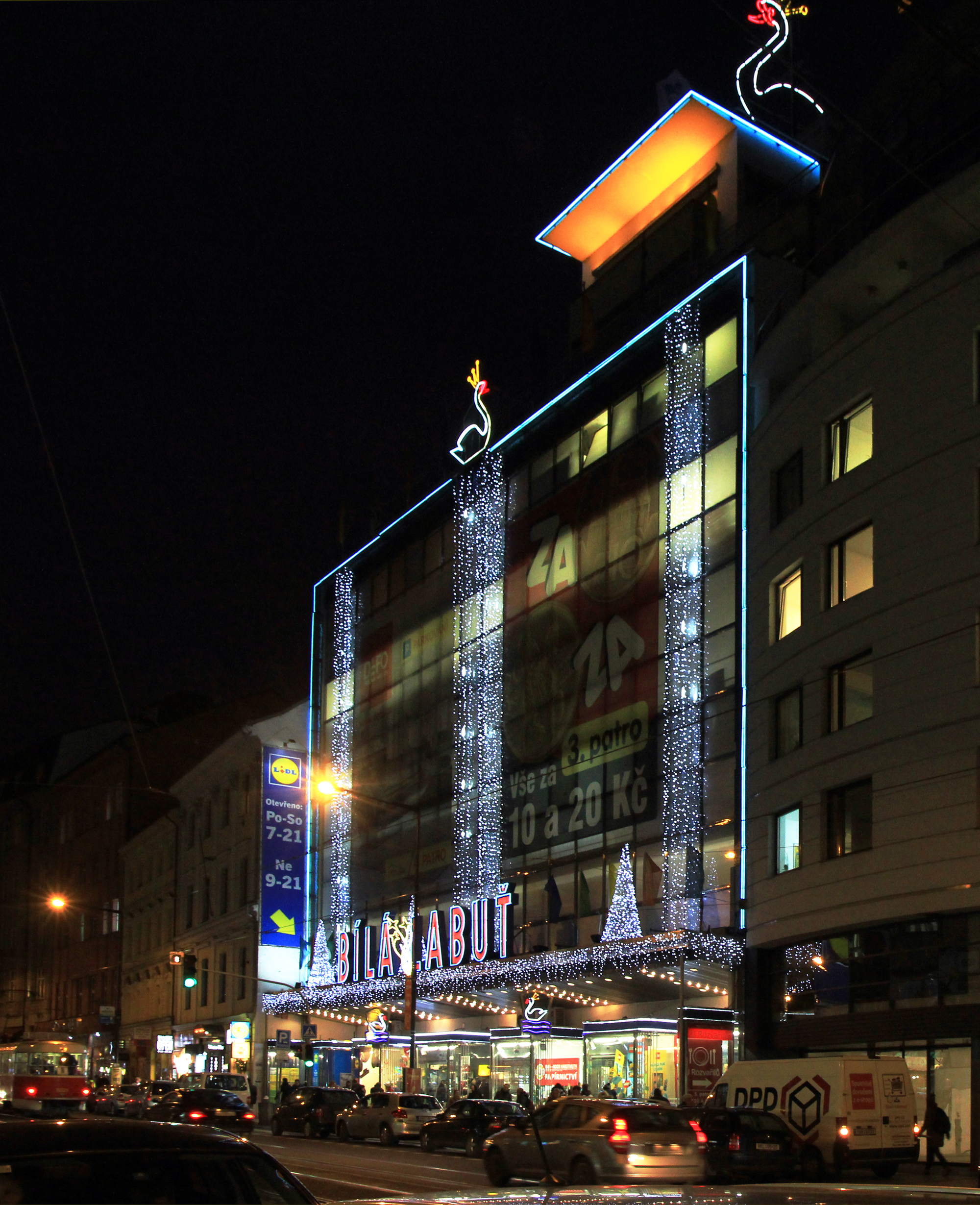 Christmas decoration of Department store Bílá Labuť, Prague, Czech Republic 2014